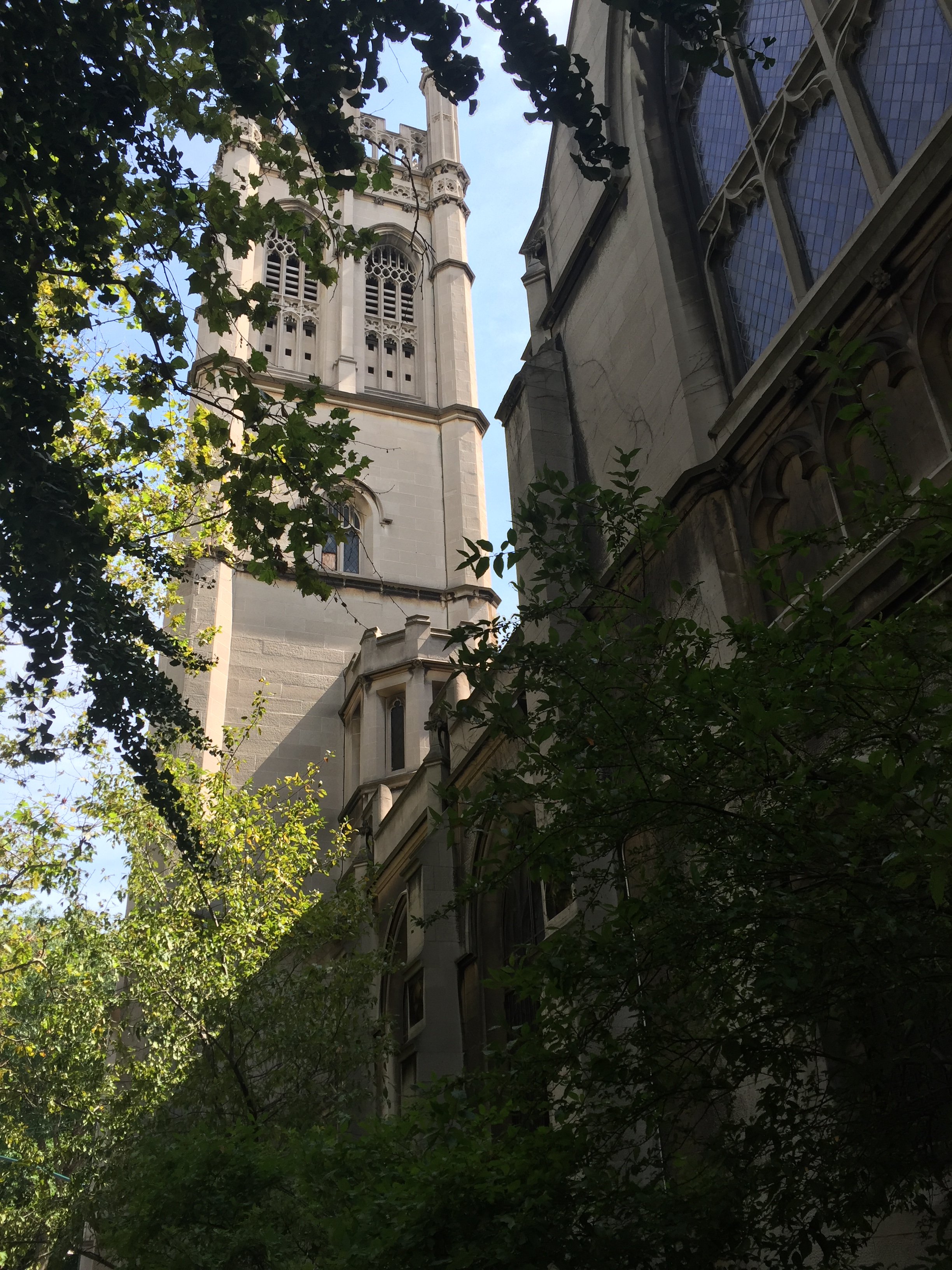 Fourth Universalist Society